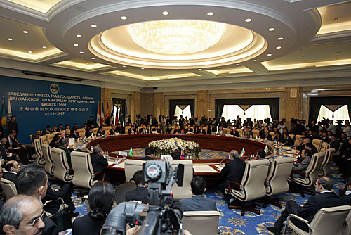 BISHKEK. At the expanded session of the Shanghai Cooperation Organisation summit meeting.